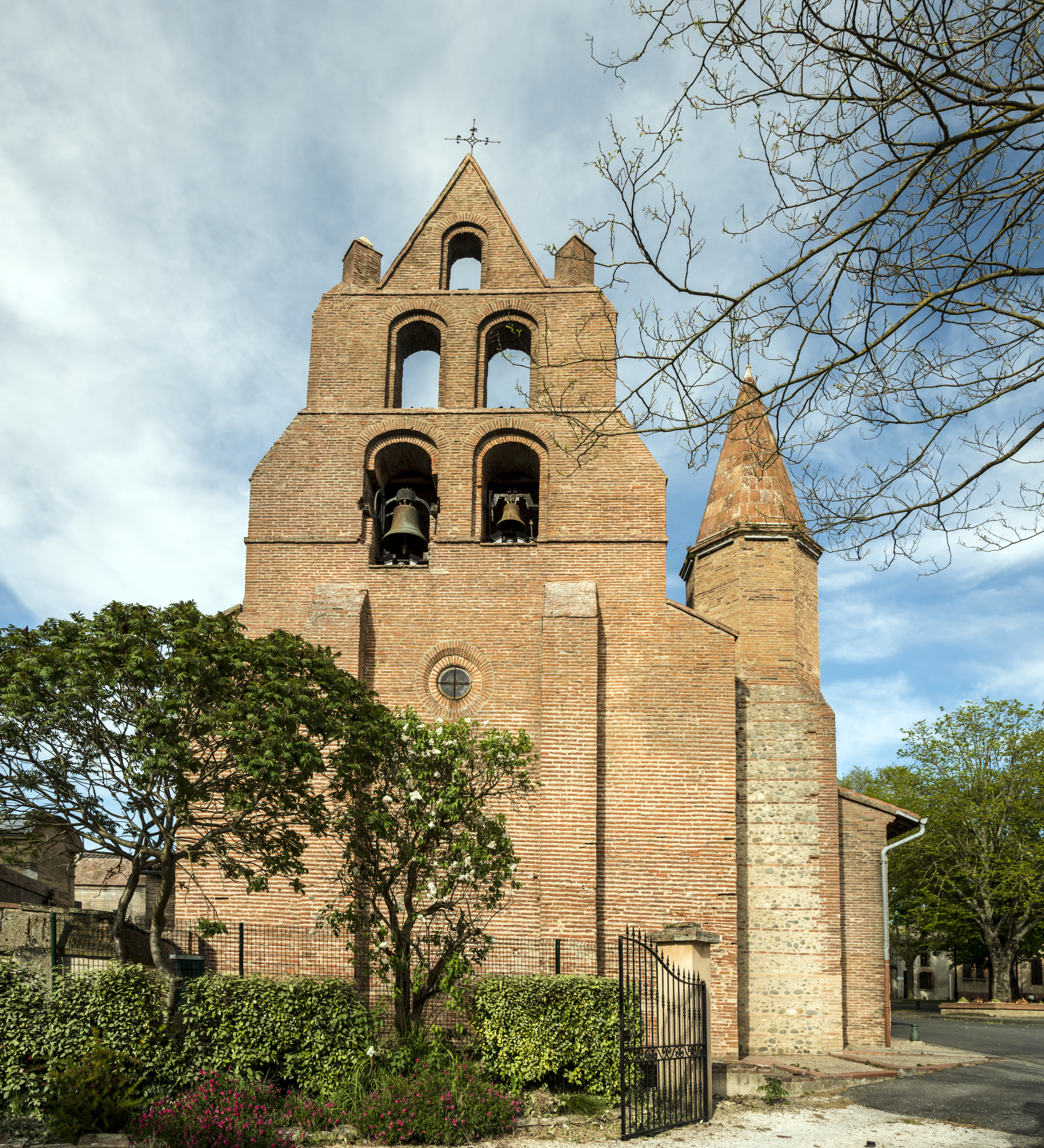 Facade of Church Saint-Jacques in Pechbonnieu, Haute-Garonne, France.